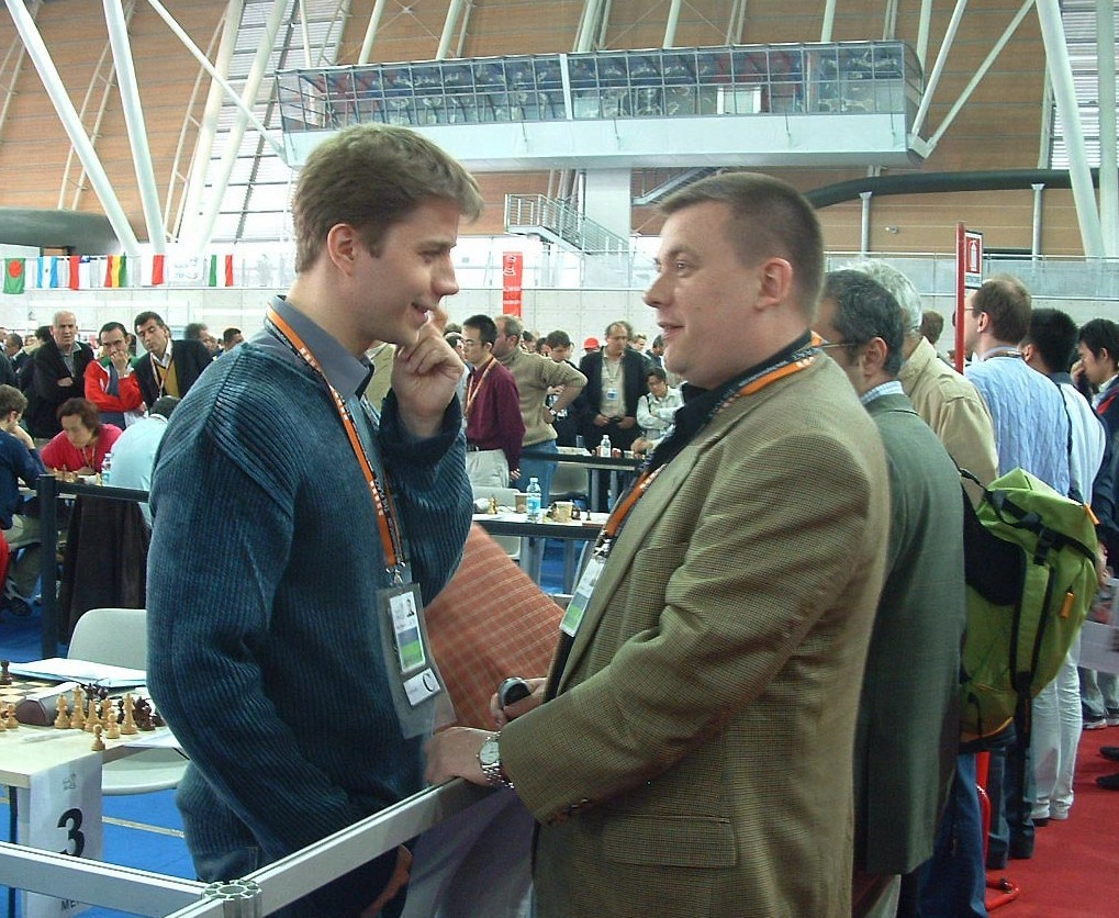 Photo of russian grandmasters Alexander Motylev and Sergei Rublevsky at the Turin 2006 Olympiad